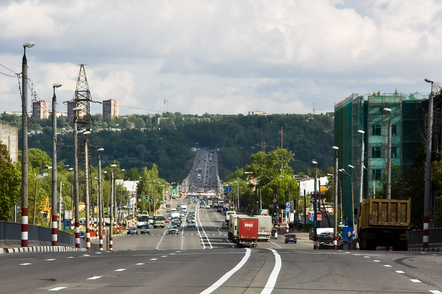 Novikova-Priboya street and Myza bridge are parts of M7 road.